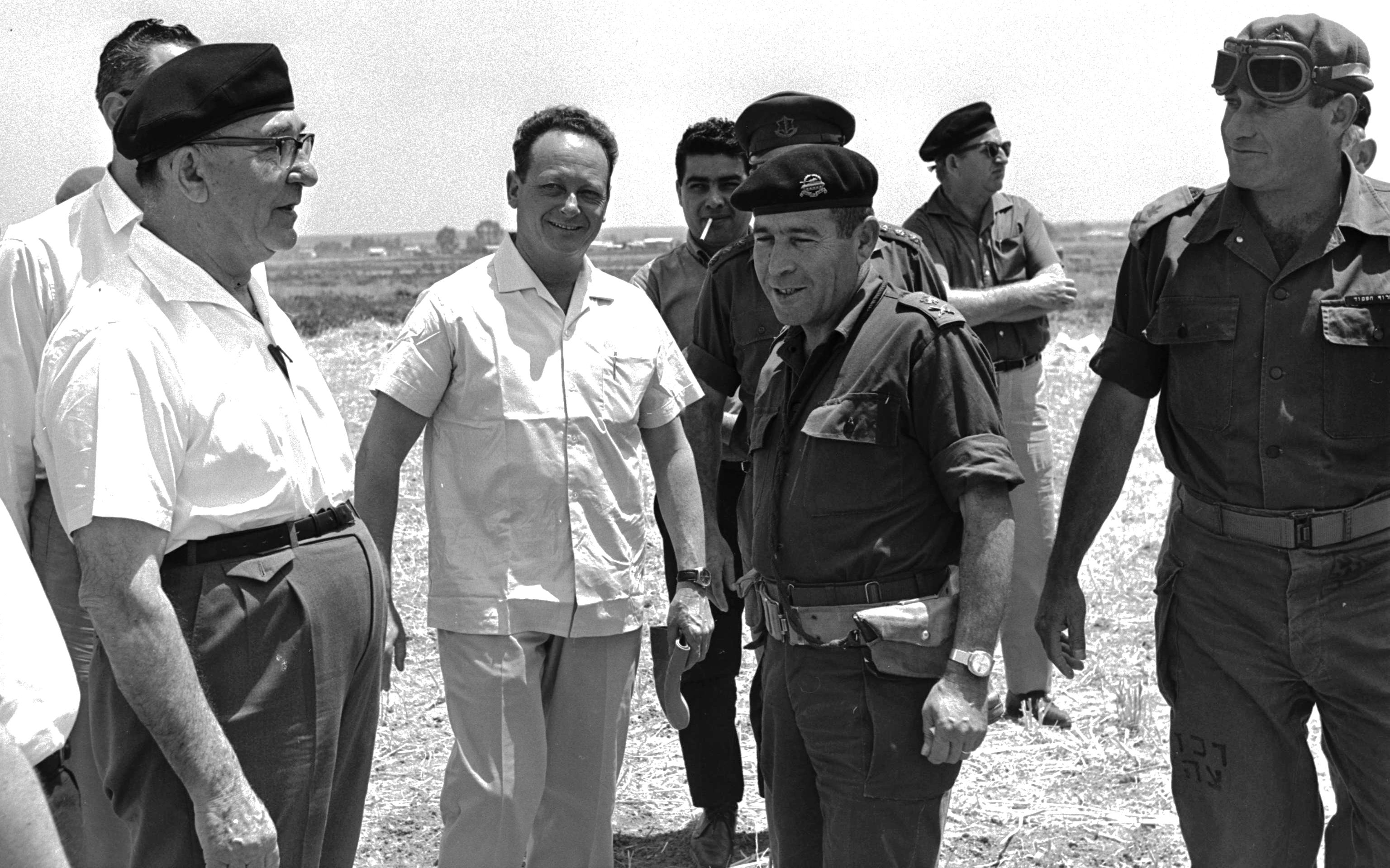 Prime Minister Levy Eshkol (left) and Min. Yigal Allon (second from left) with Major General Israel Tal and Major General Yeshayahu Gavish in the Negev.